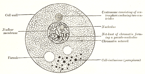 Diagram of a cell